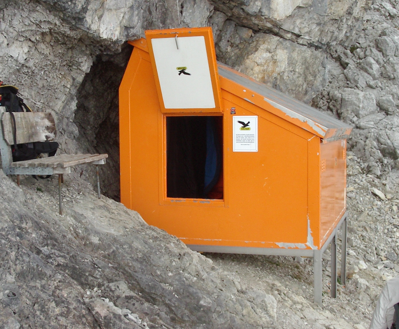 Bivouac Hut in the Watzmann East Face